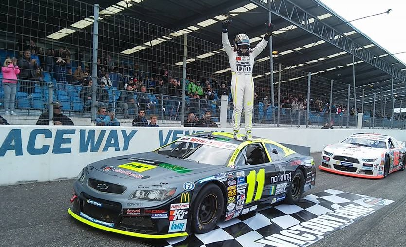 Stienes Longin wins the second race of the NASCAR Whelen Euro Series Elite 2 at Raceway Venray 2016.